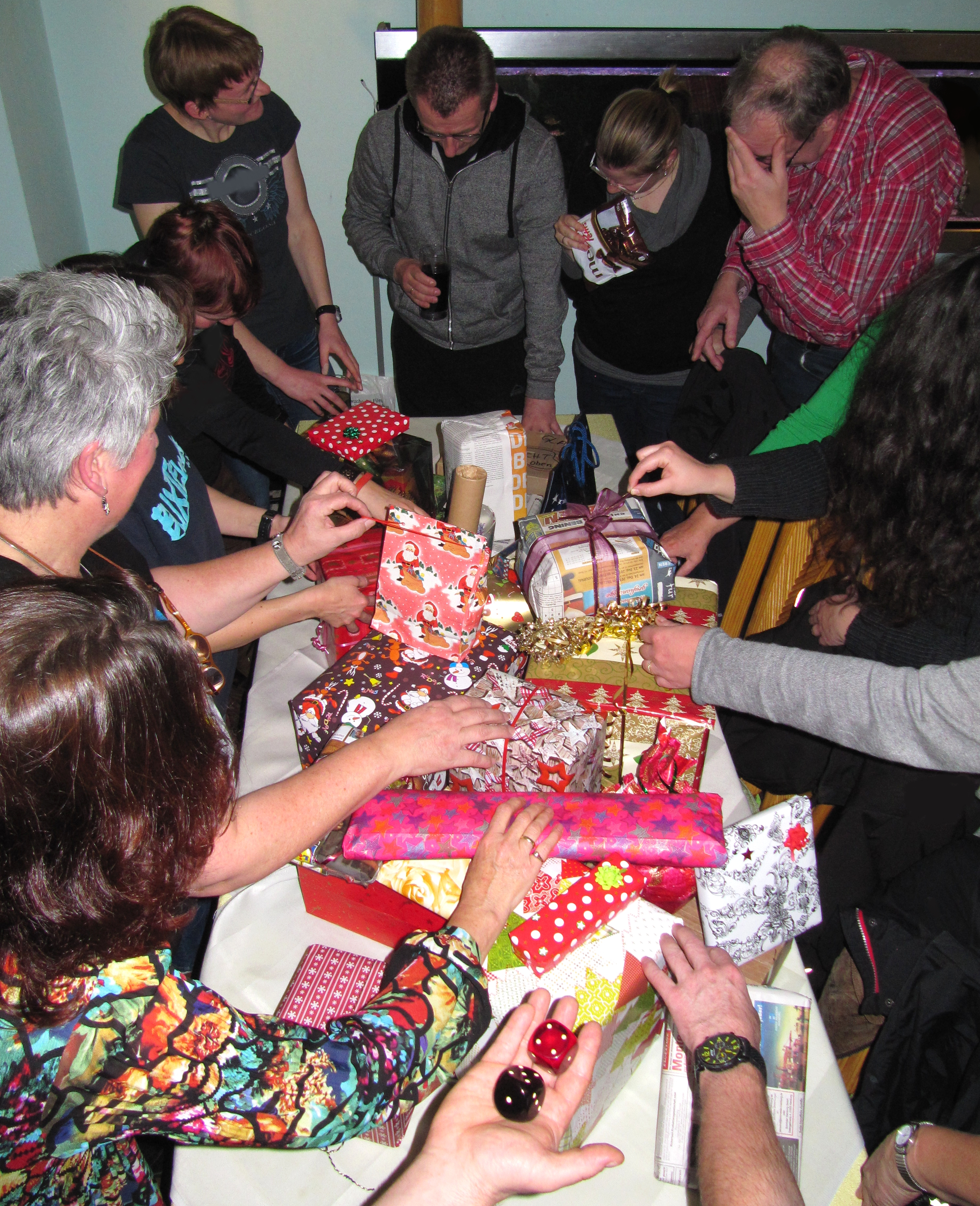 Julklapp ("Secret Santa") as a Christmas party tradition in Germany on December 16th, 2015: First, the participants grab one package from the anonymous piled presents from the table. After unboxing, each participant throws a dice: "1" and "6" means that one has to change their present with anybody else. A "3" means that all packages change their position to the right neighbor. There a numerous different rules for this party game.